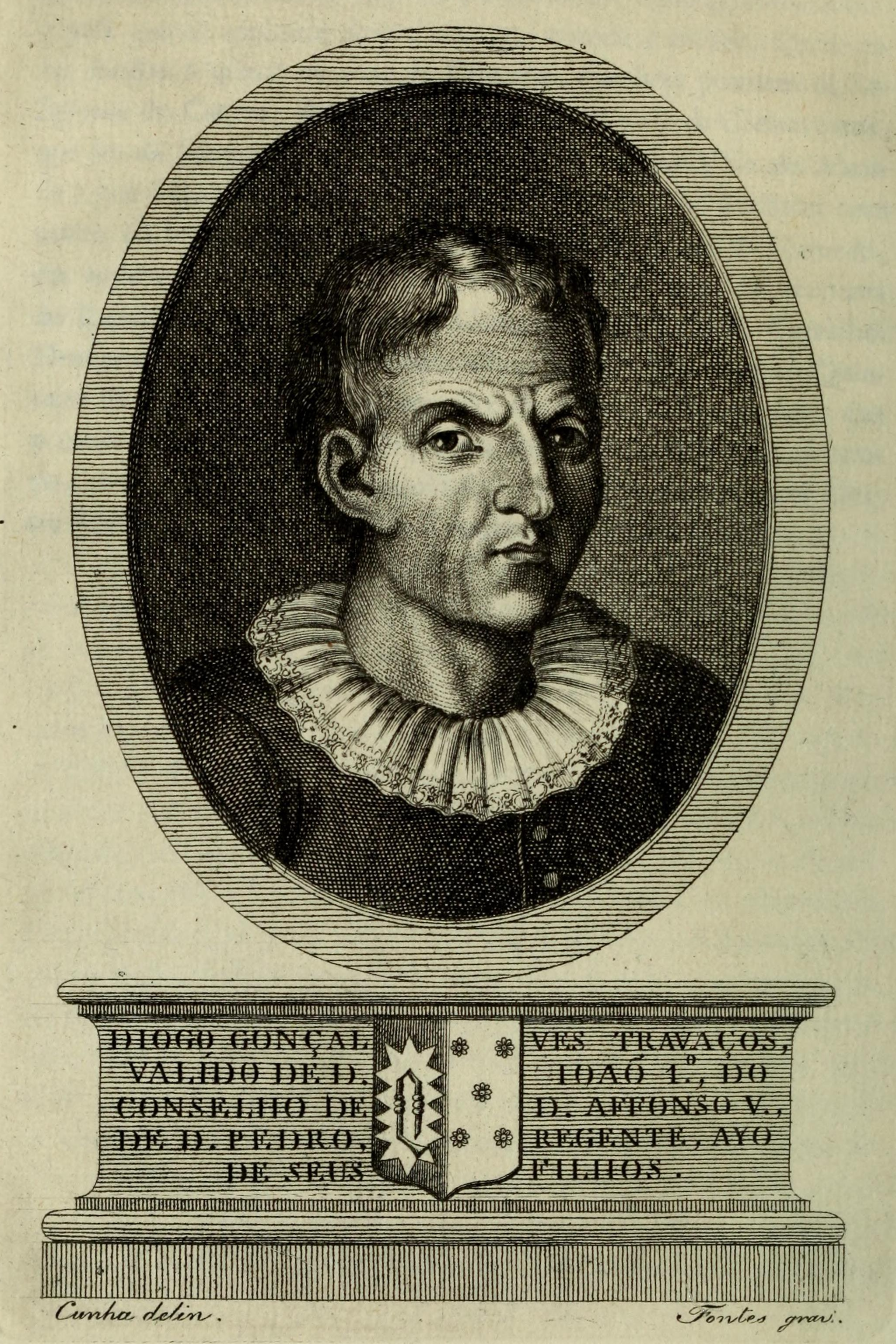 Diogo Gonçalves de Travassos (1390-1449)